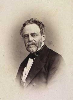 Wilhelm Marstrand (1810-1873), Danish painter